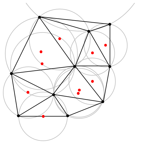 A Delaunay triangulation with all circumcircles and their centers, based on Delaunay_circumcircles.png.